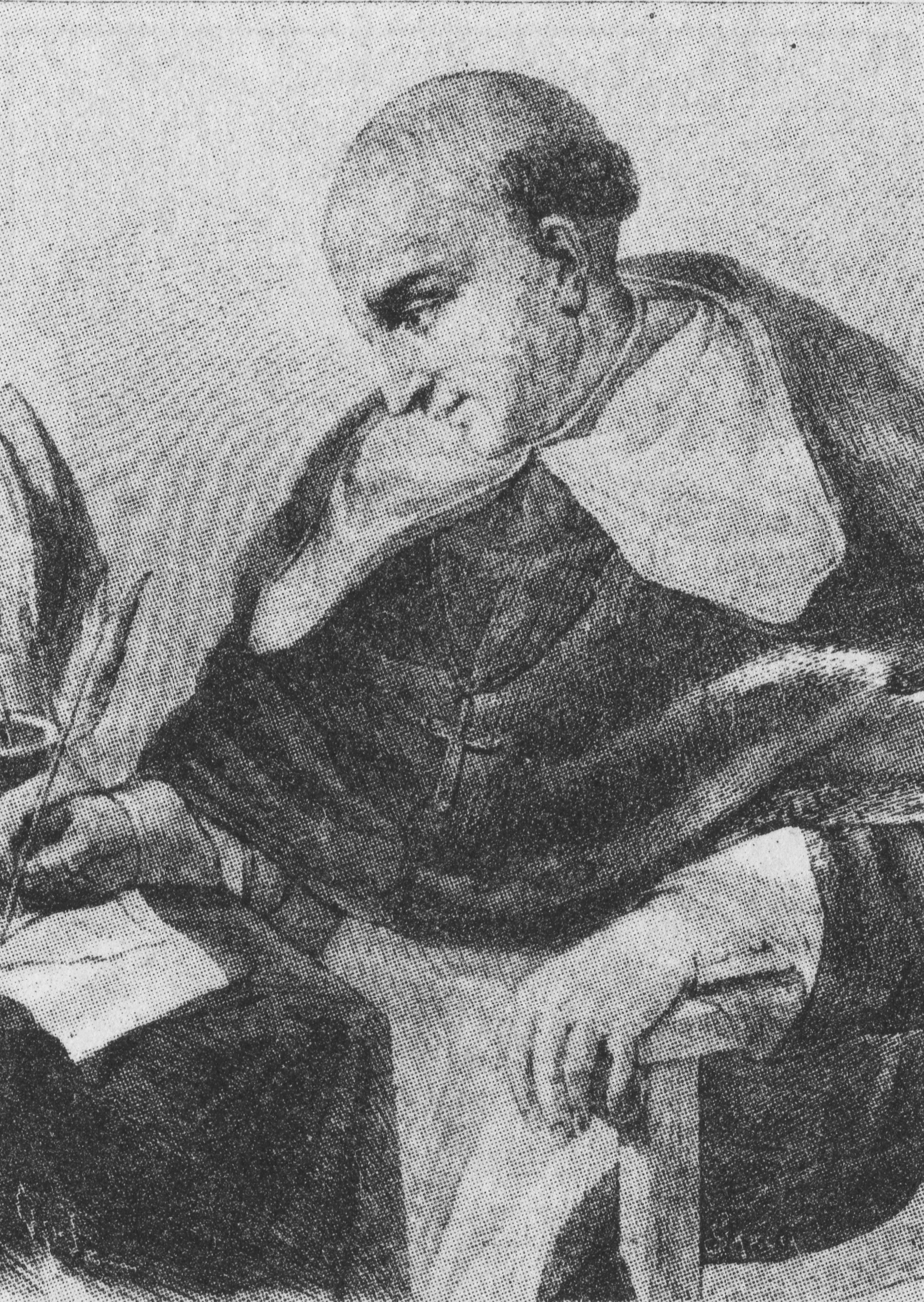 Portrait Bartolomé de Las Casas, originally a painting